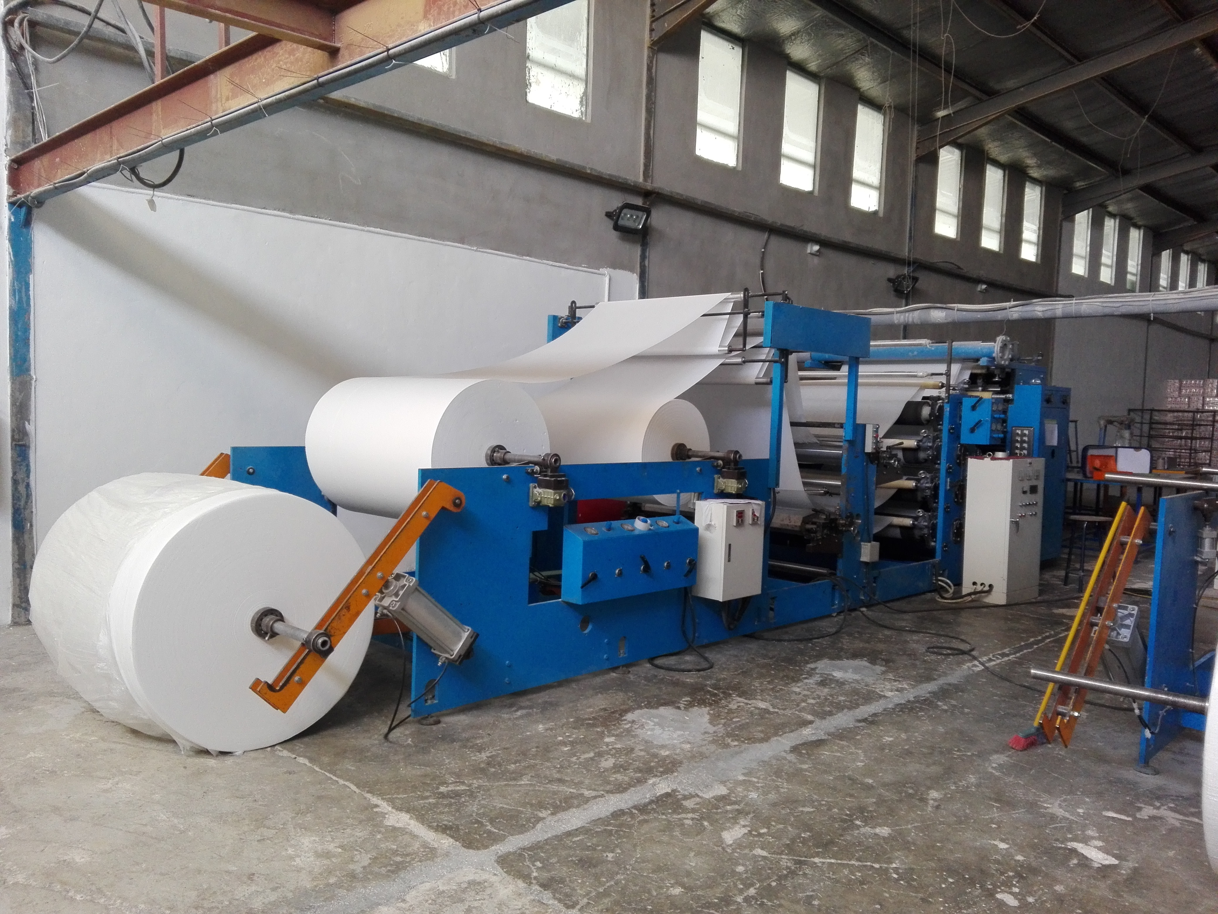 Tissue Paper Production Machine with Raw Material (Jumbo Roll) set on the machine for converting to Tissue Papers